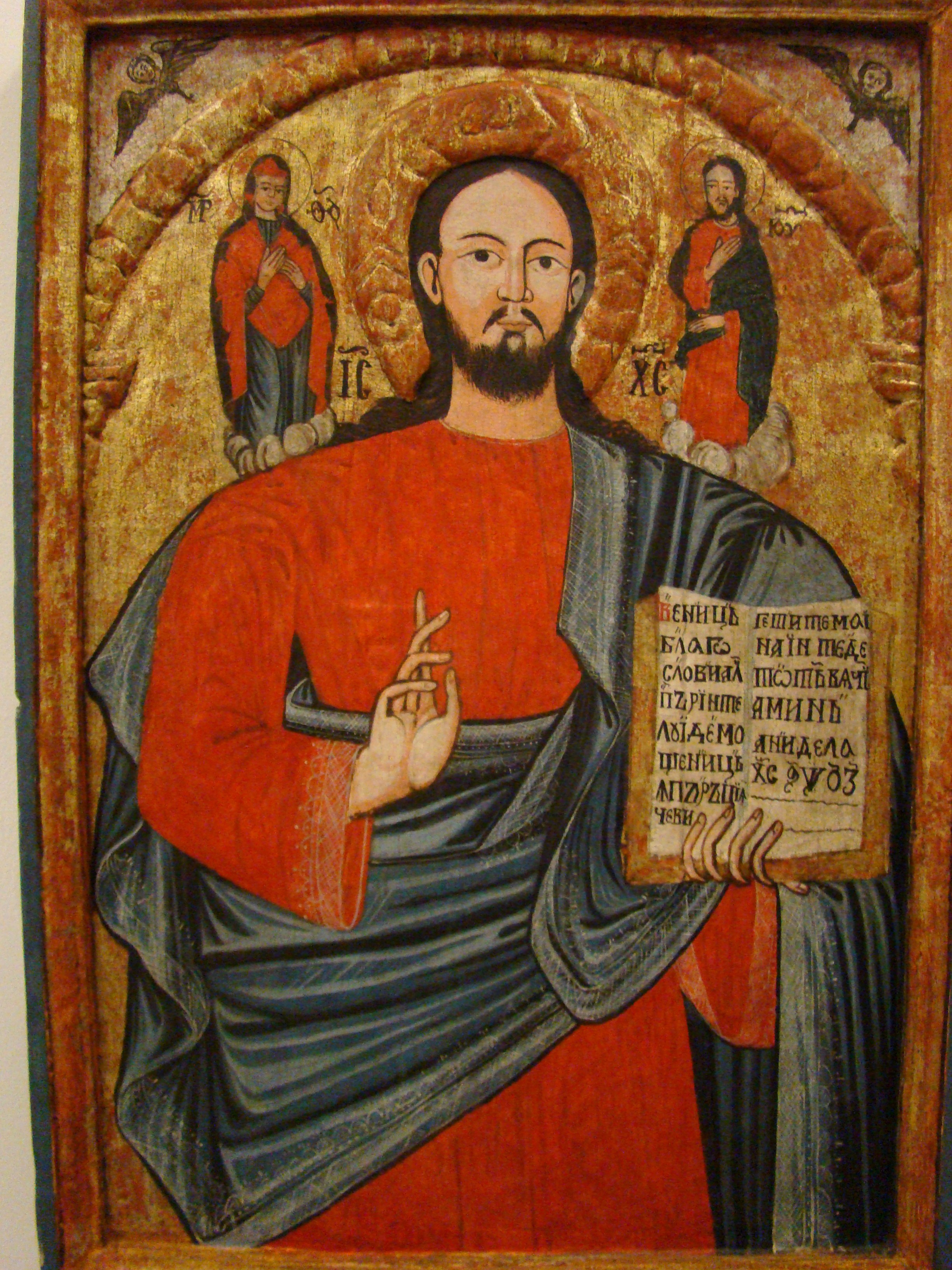 Icon painted by Simion Silaghi Sălăjeanul